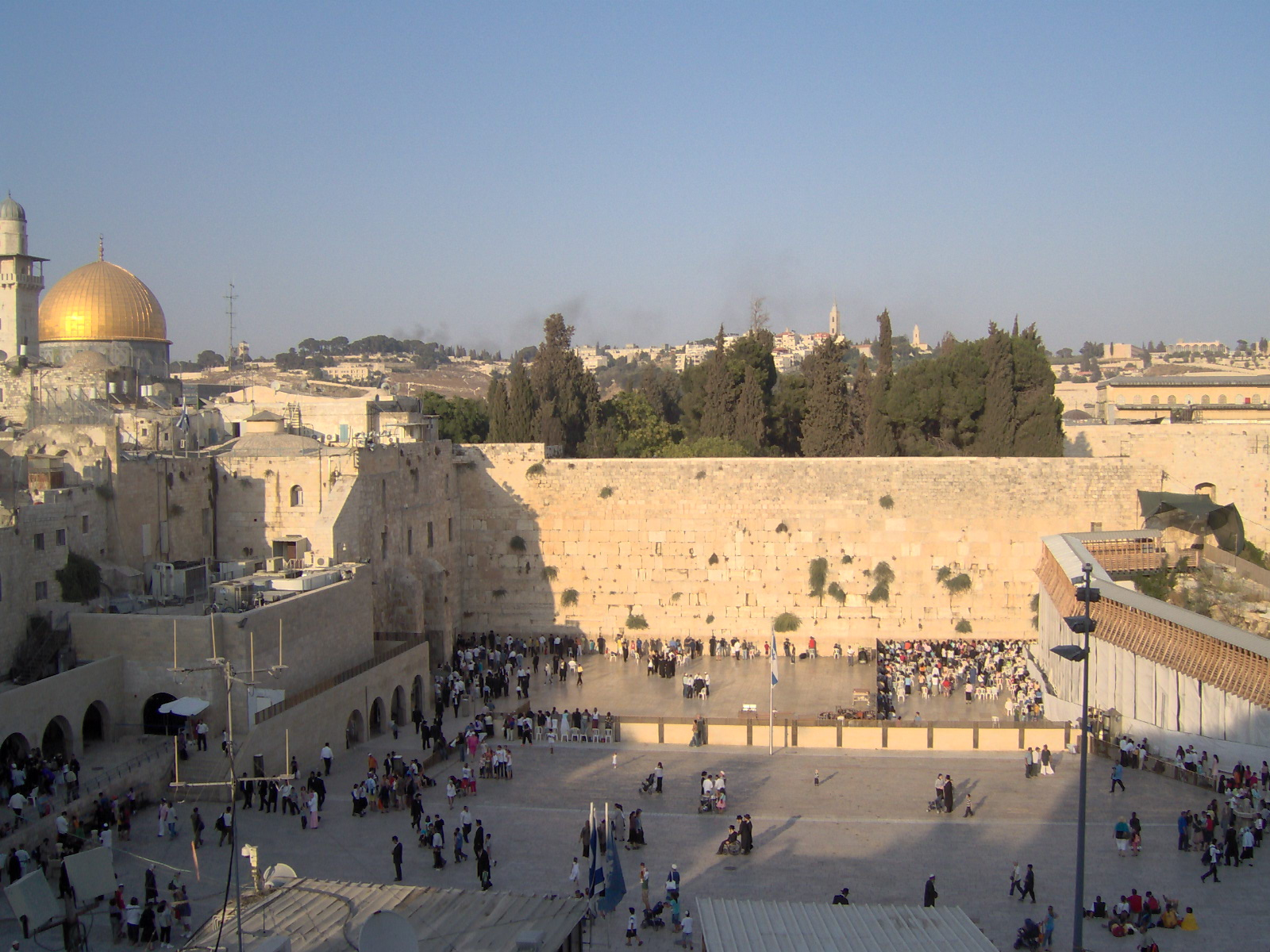 Western Wall Plaza from above.